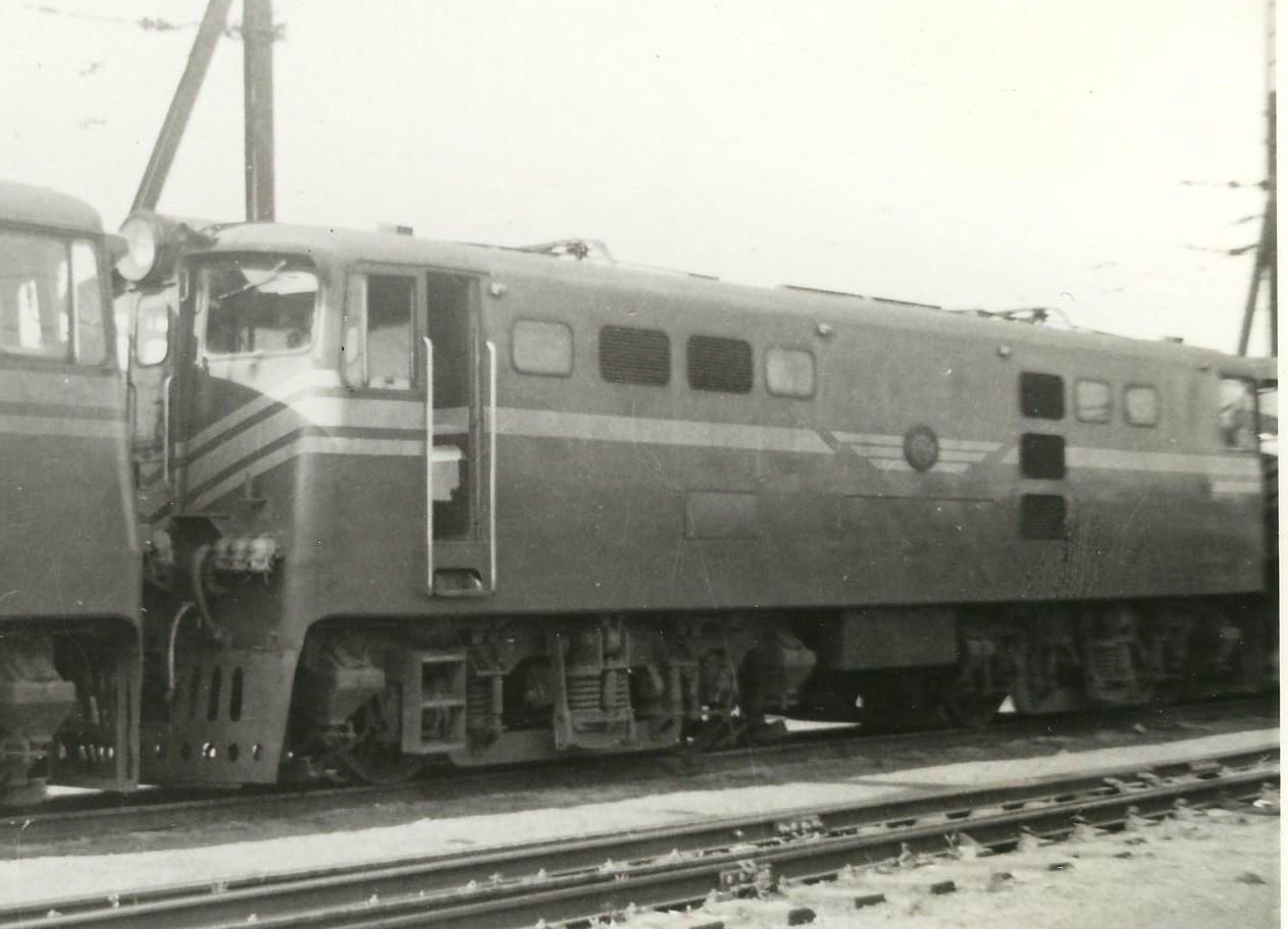 SAR Class 5E1 Series 1 E464 Builder's Number: MV 1132 Location: Salt River, Cape Town